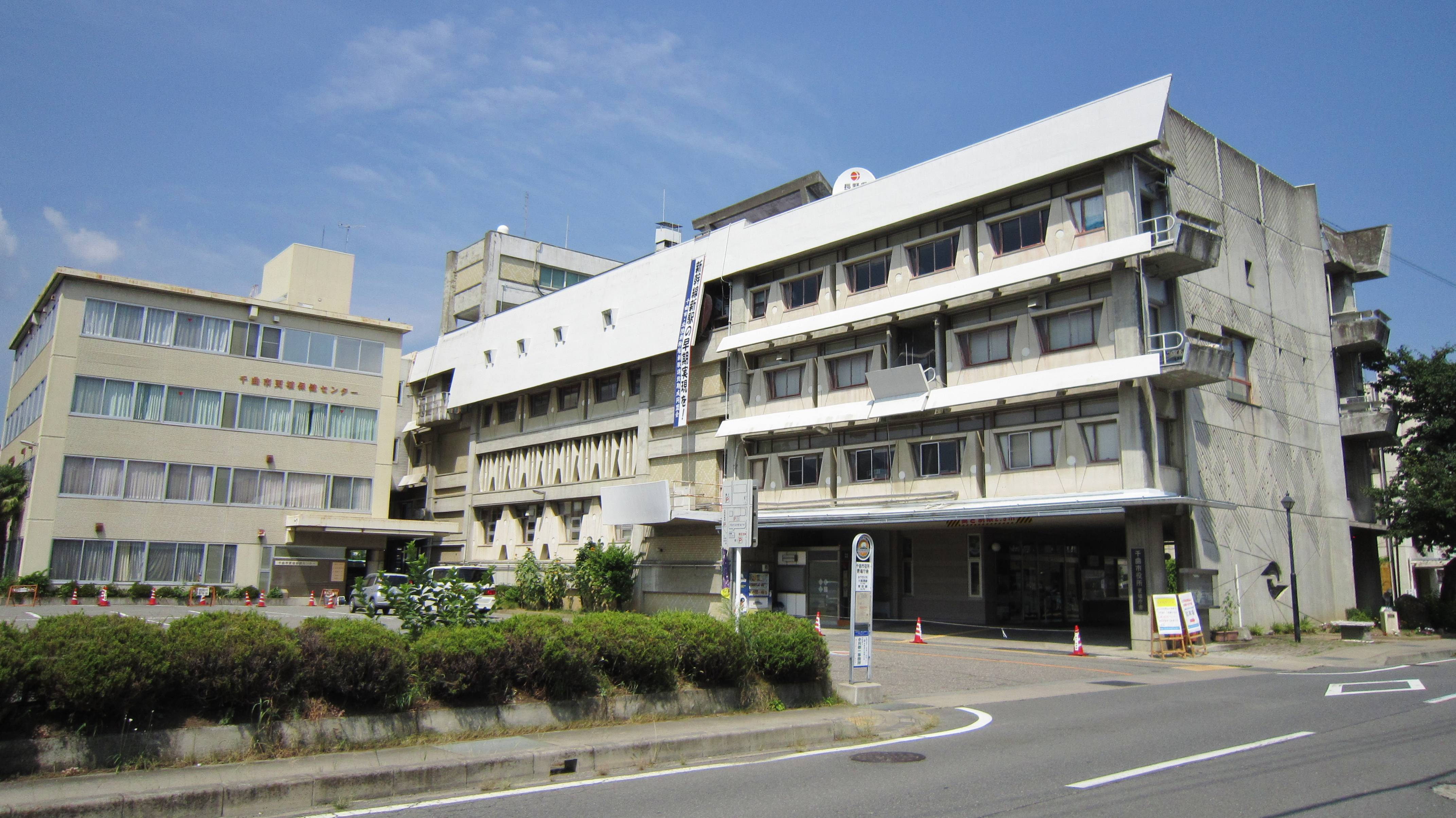 Chikuma city Koshoku branch office.